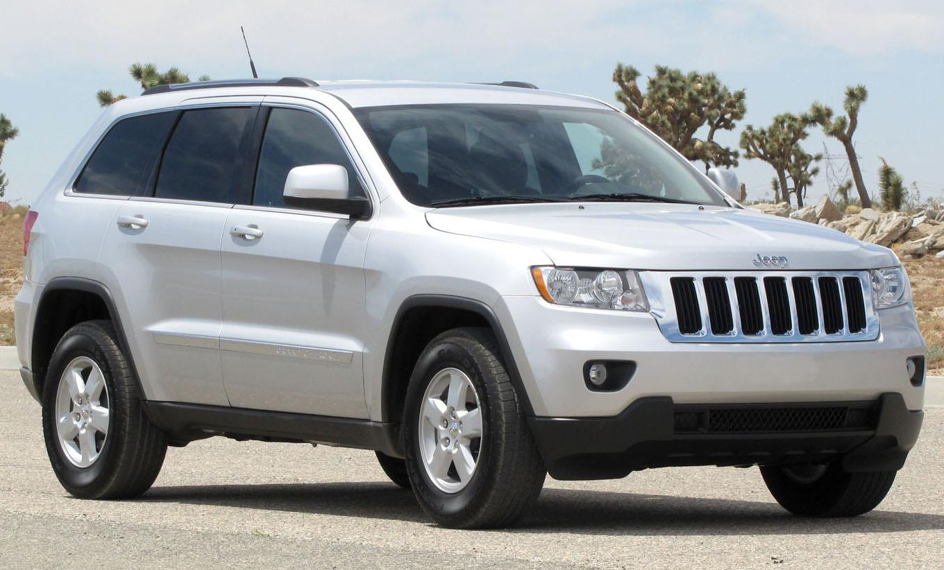 2011 Jeep Grand Cherokee photographed in USA.